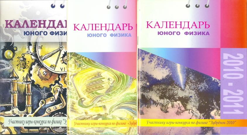 Titles of the calendars of youth physics